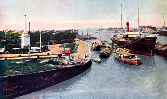 The Anda Monument, then located near the Pasig River as shown in the photo